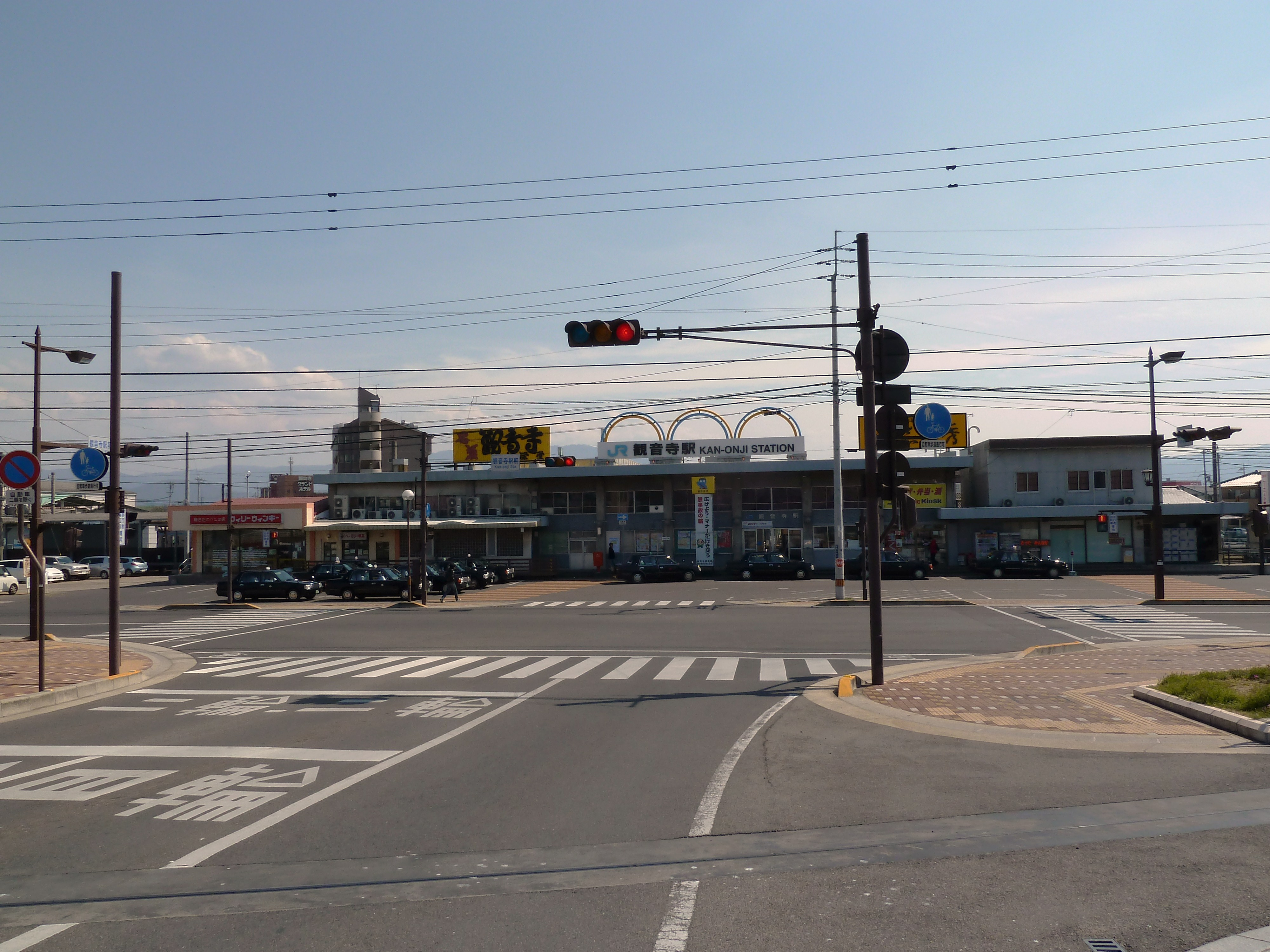 Kan'onji Station